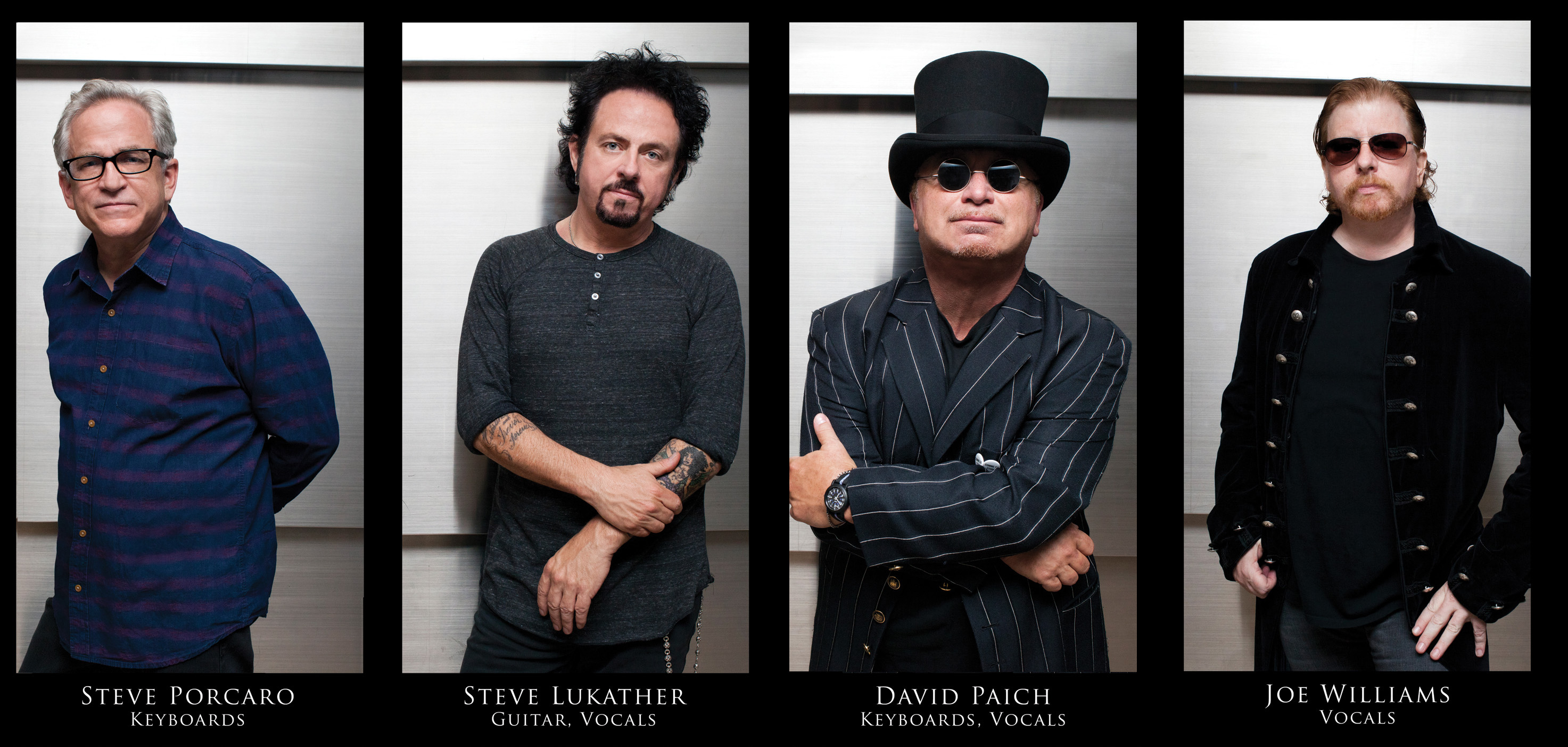 Core members of Toto since 2010.